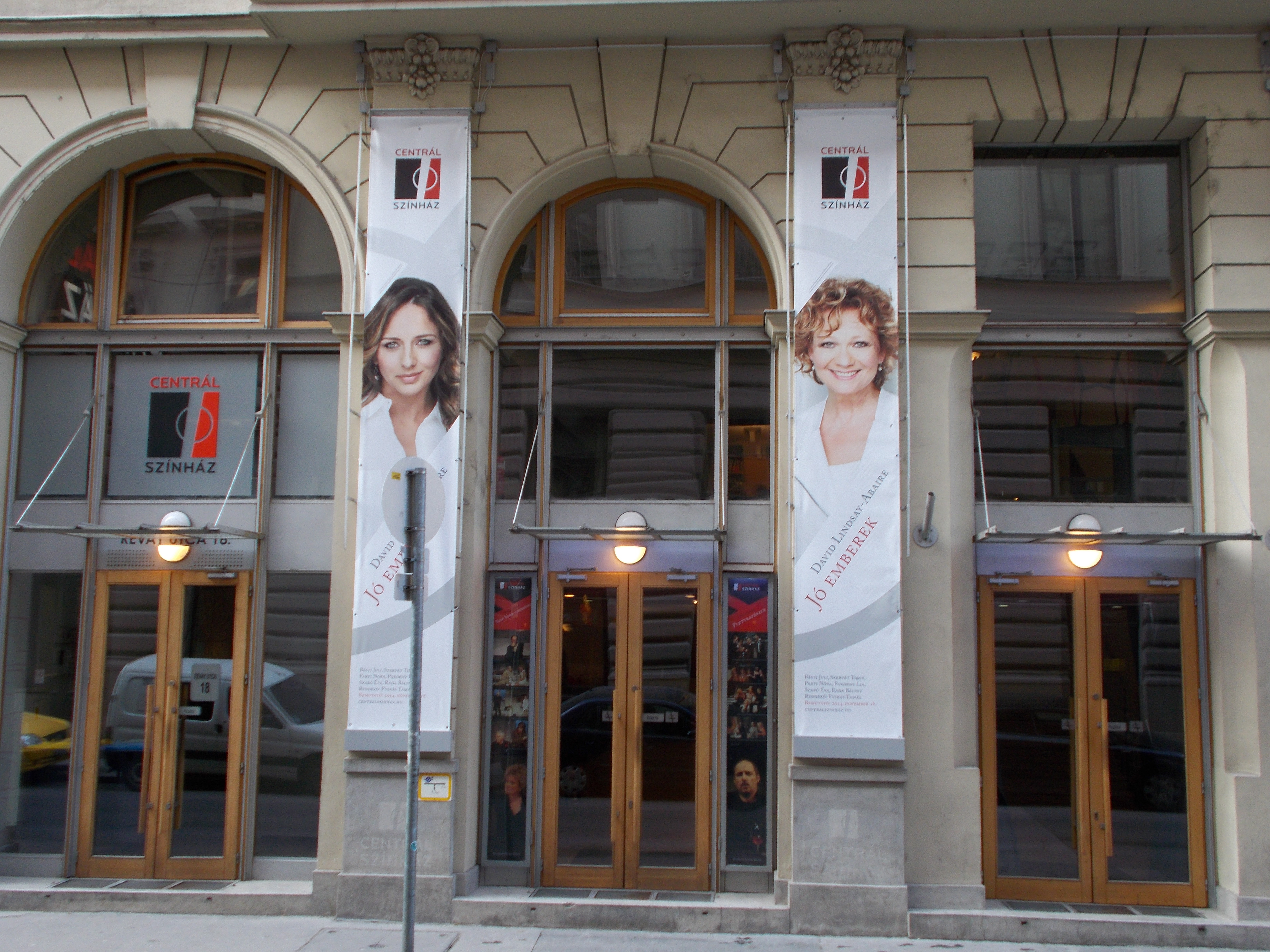 Central Theatre, Entrance - Budapest, Révay utca 18.